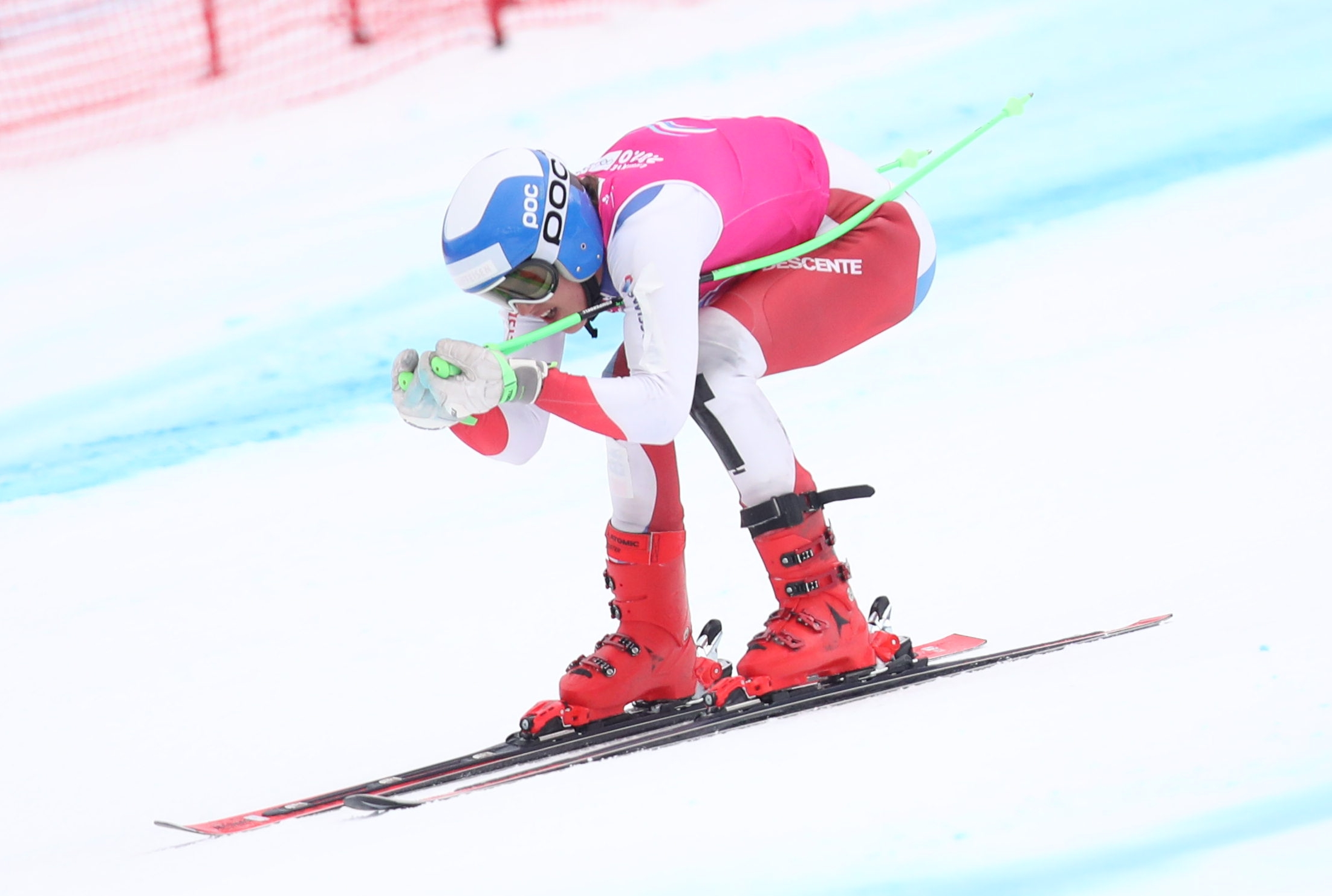 Men's Super G at the 2020 Winter Youth Olympics in Lausanne